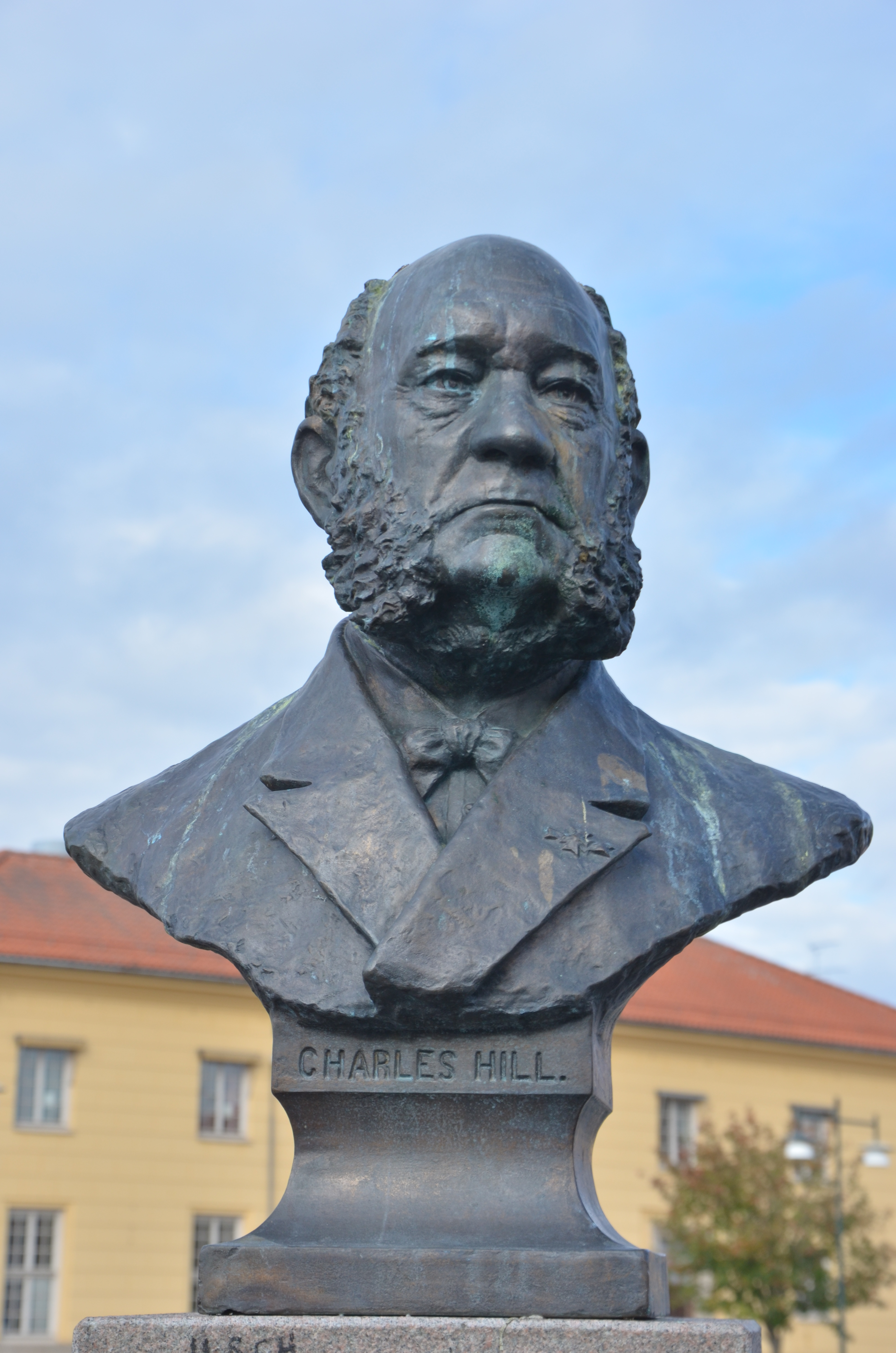 Byst över Charles Hill vid ån i Alingsås